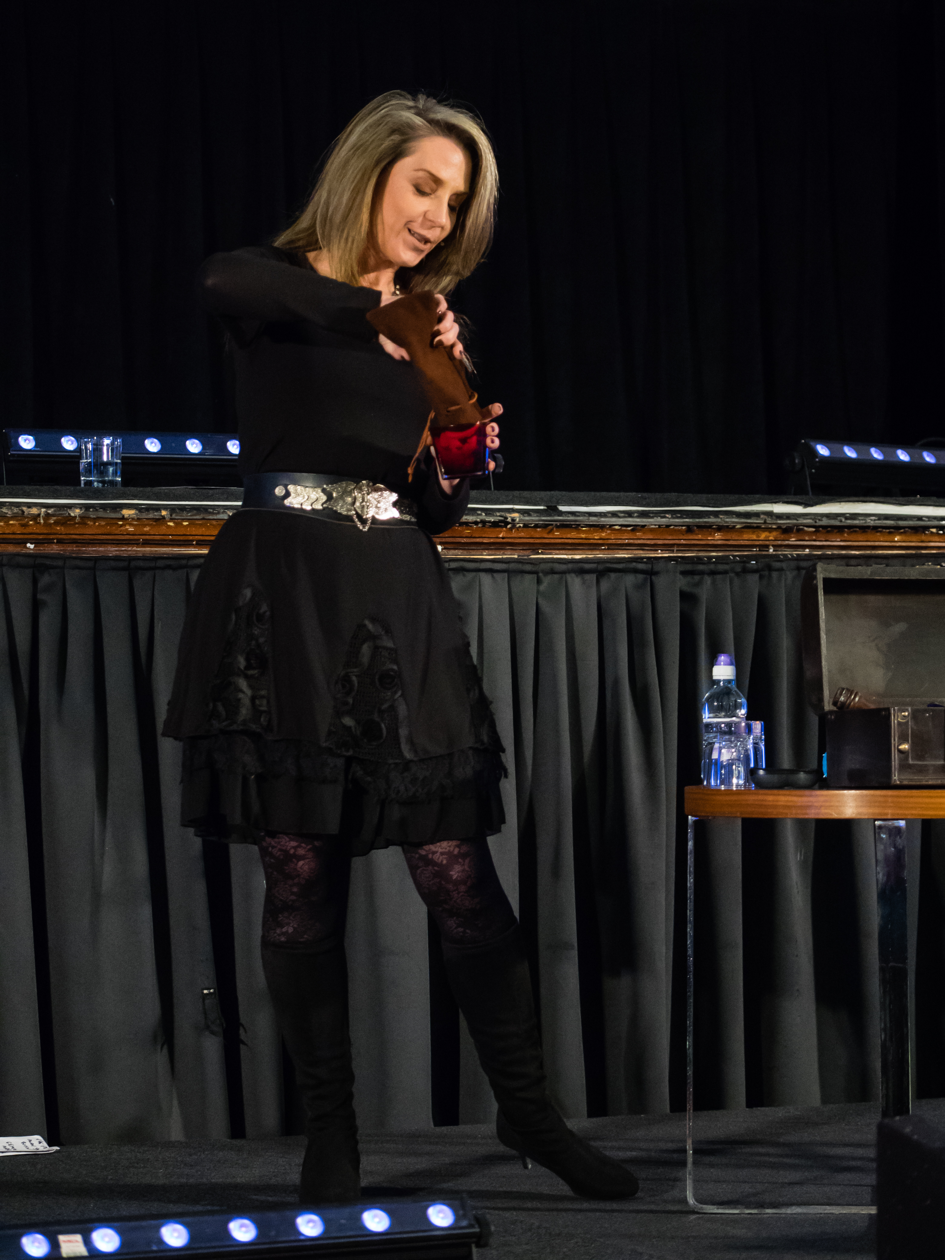 Deborah Hyde speaking at QEDcon on April 13 2014 at The Palace Hotal, Manchester.